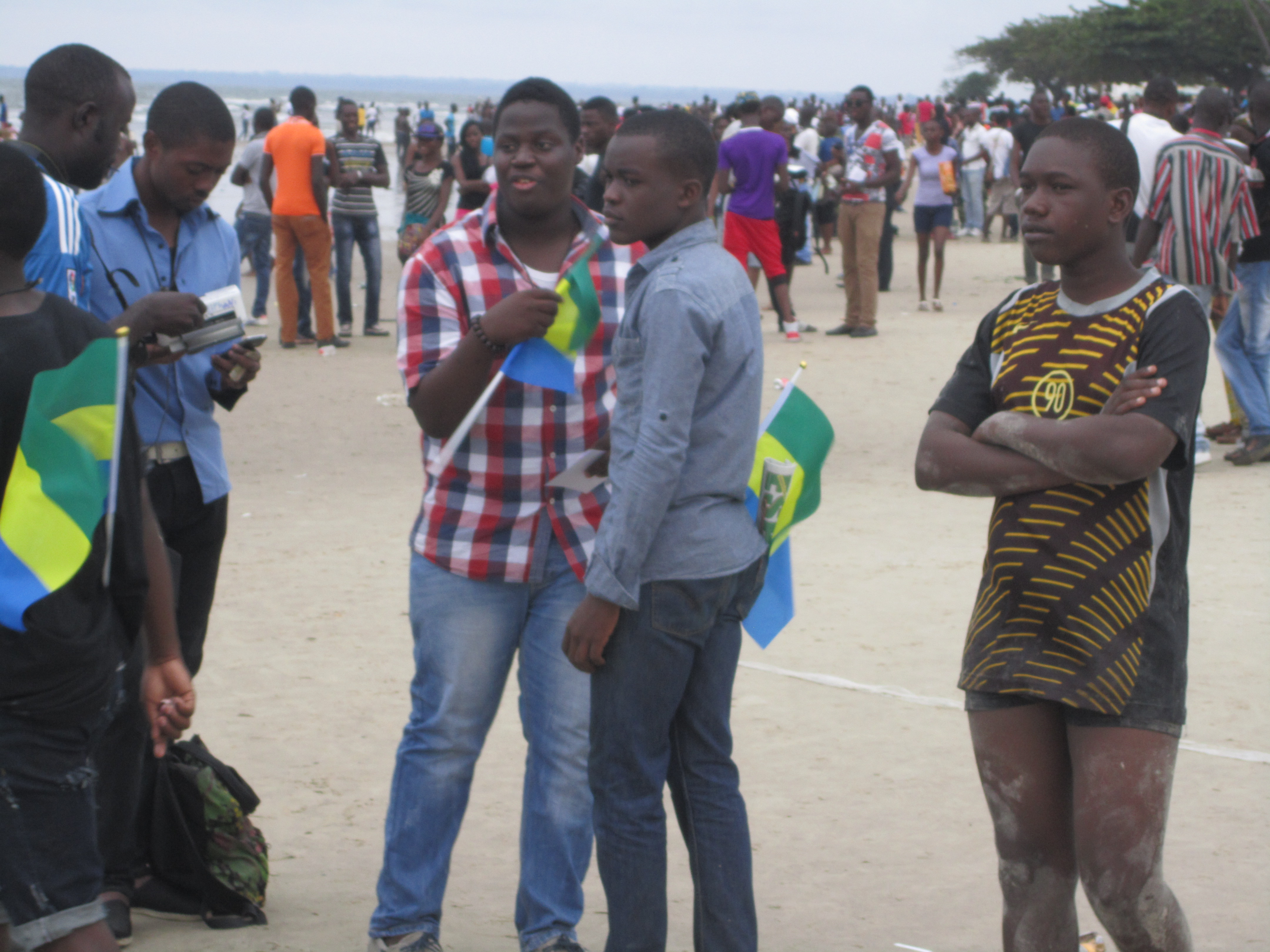 This is an image of Cultural Fashion or Adornment from Gabon